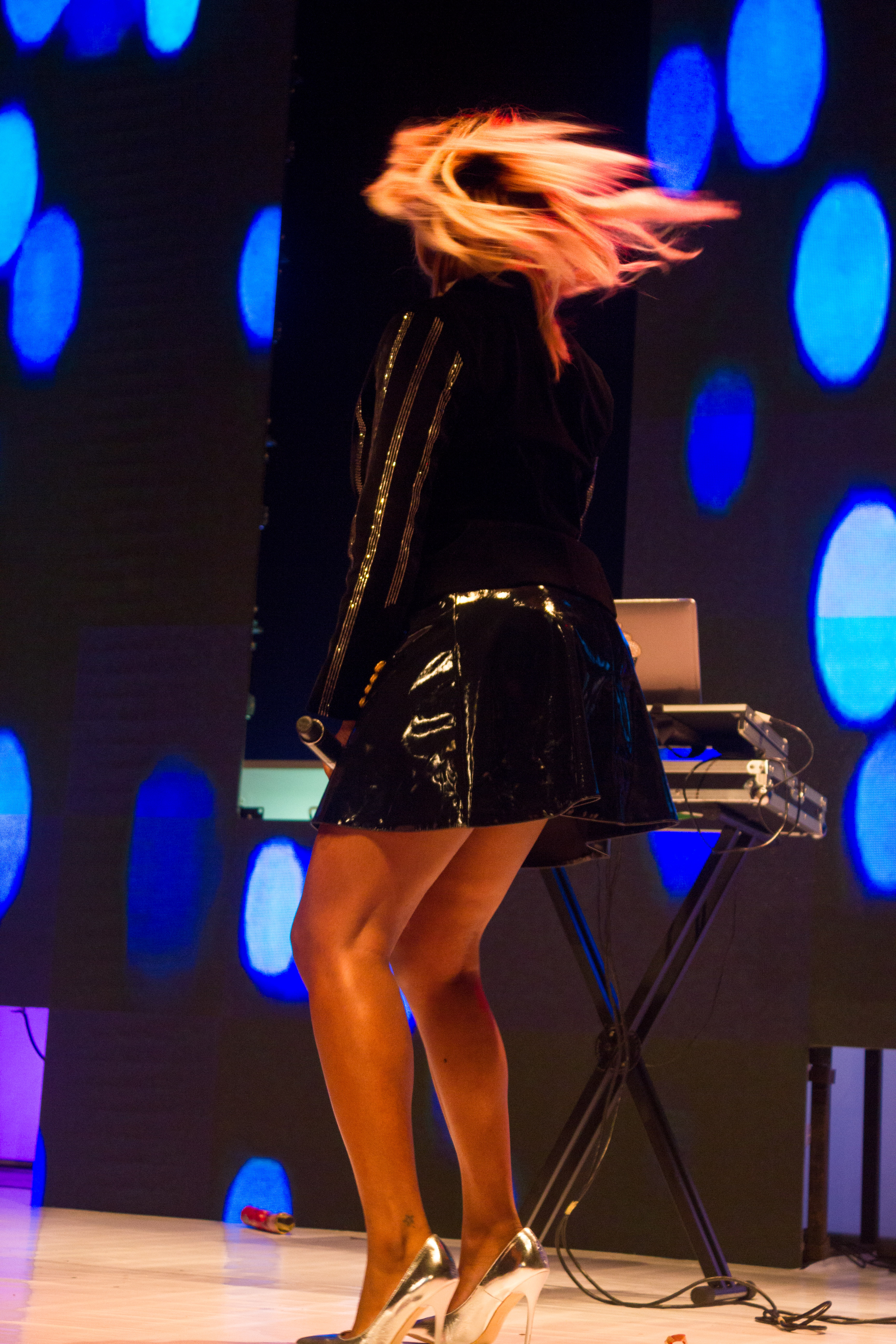 This is an image with the theme "Play" from: Nigeria